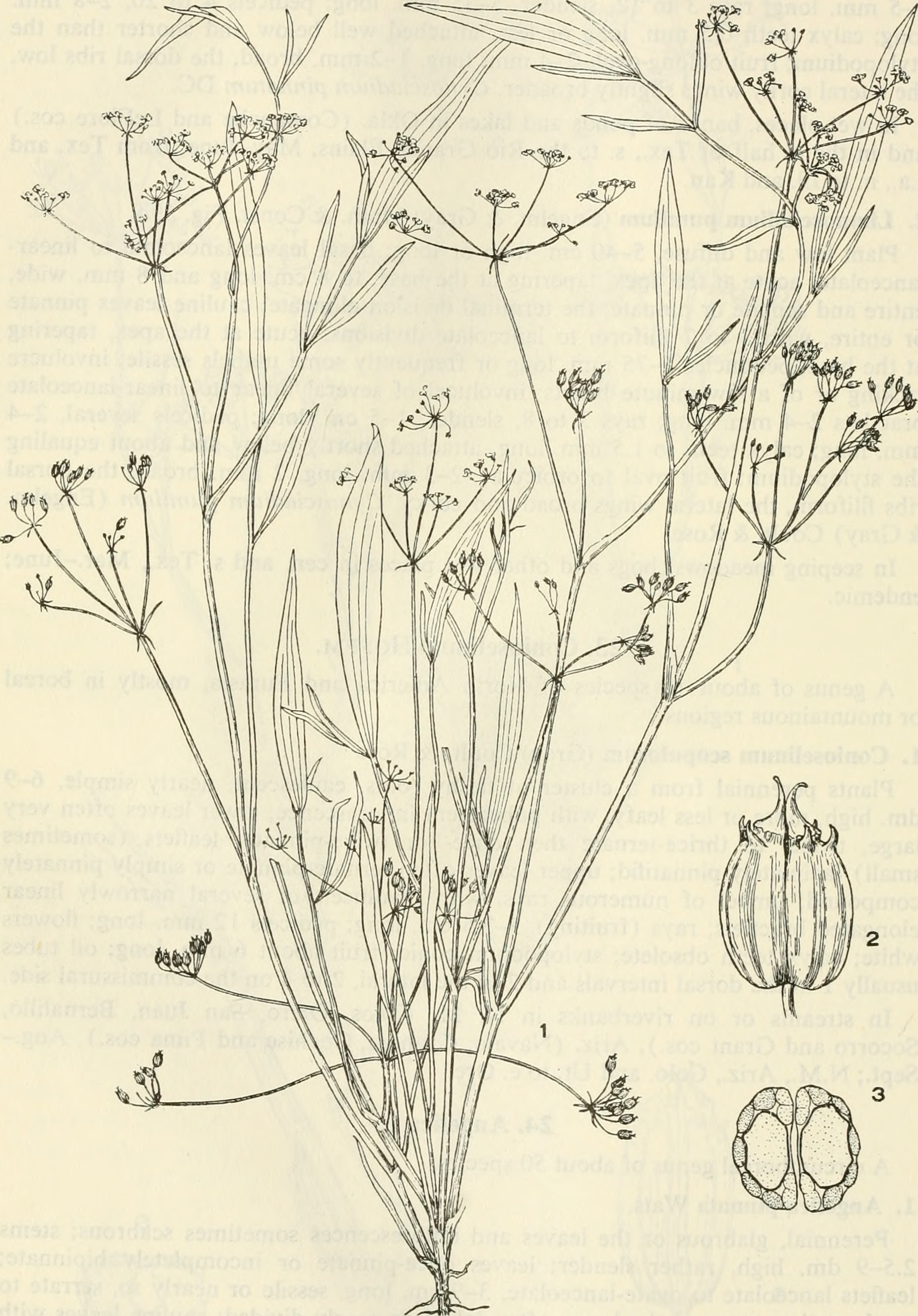 Title: Aquatic and wetland plants of southwestern United States Year: 1972 (1970s) Authors: Correll, Donovan Stewart, 1908-; Correll, Helen B Subjects: Aquatic plants -- Southwestern States; Wetland plants -- Southwestern States Publisher: [Washington Environmental Protection Agency; [For sale by the Supt. of Docs. , U. S. Govt. Print. Off. Text Appearing Before Image: ' Text Appearing After Image: Fig. 594: Limnosciadium pumihim: 1, plant, x I; 2, fruit, side view, x 10; 3, fruit, transverse section, x 10. (From Mathias & Constance in Lundell's Flora of Texas, Vol. 3, PI. 41).